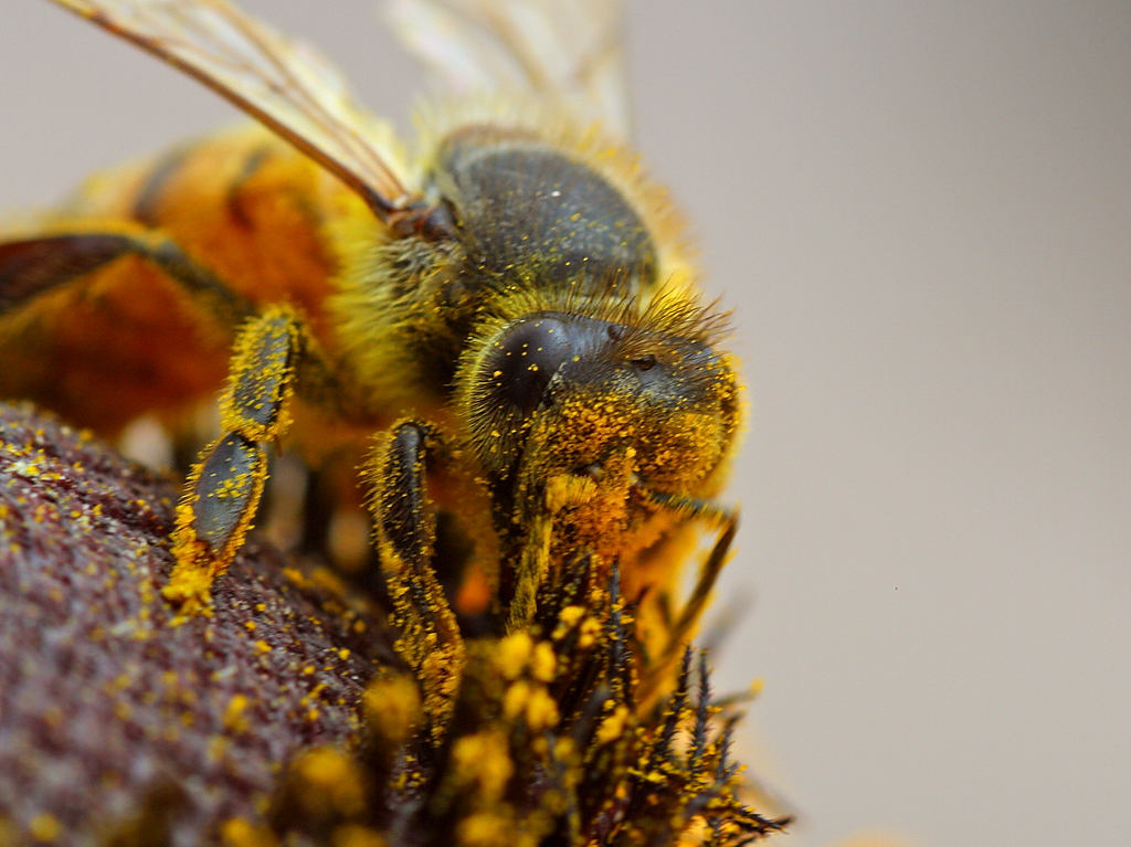 A macro photo of a bee showing the extremely narrow depth of field in such photos.